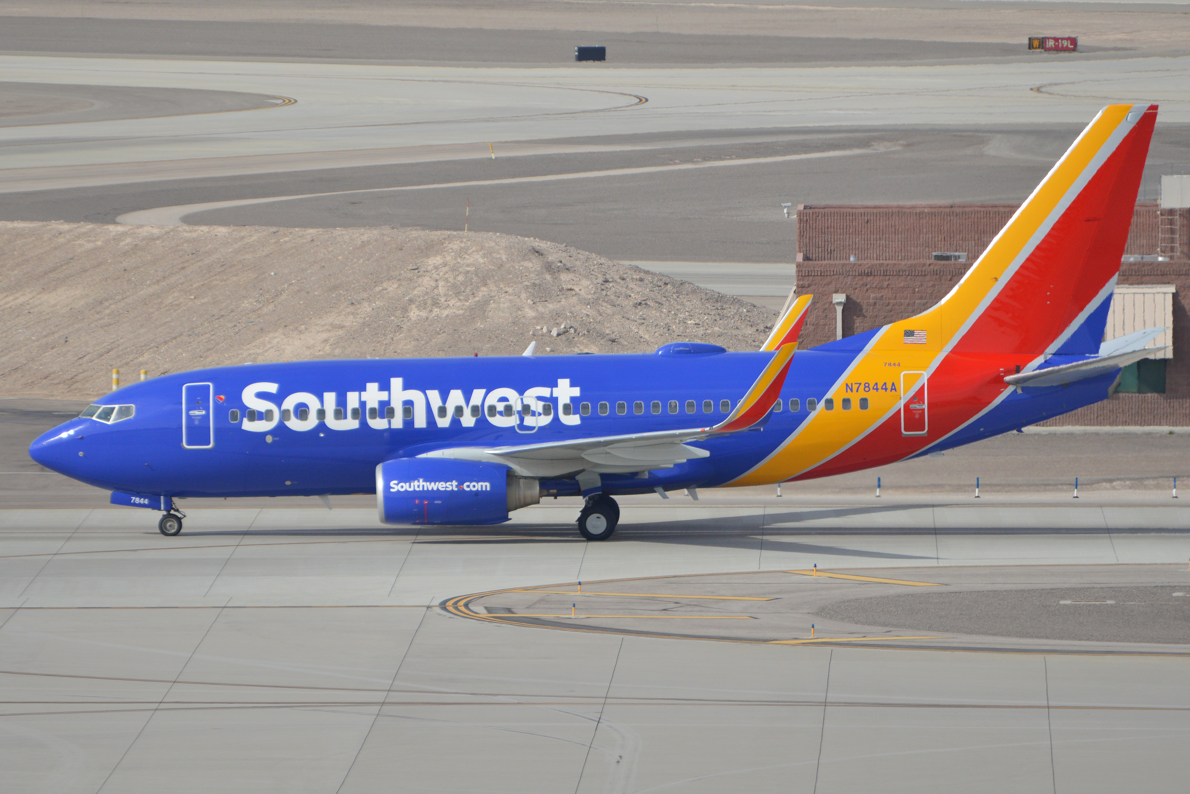 c/n 35118, l/n 2151. Built 2006. Seen taxiing in after arriving on flight SWA2995 from San Jose. McCarran International Airport, Las Vegas, NV, USA. 3rd March 2016.